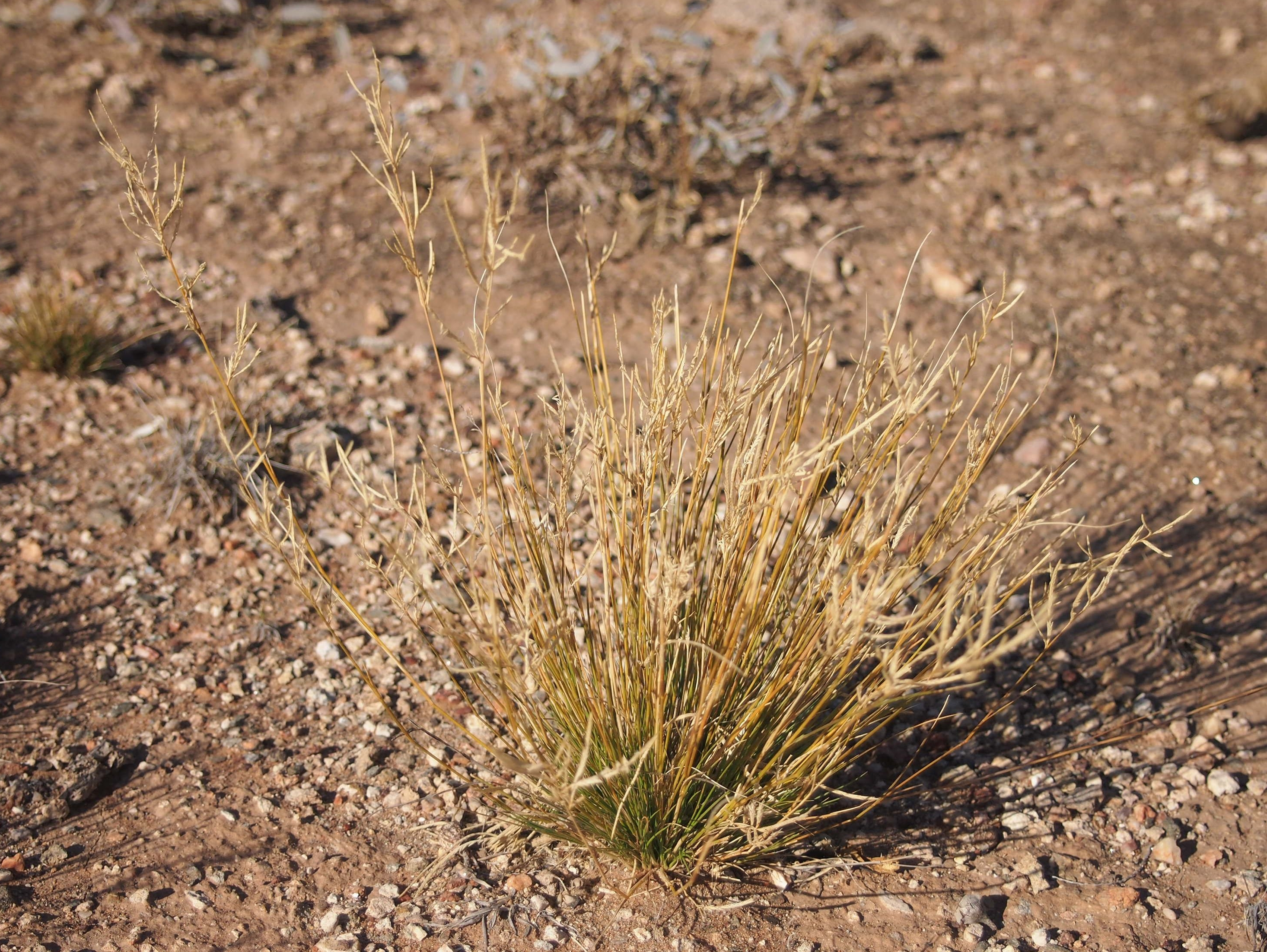 Eragrostis falcata habit